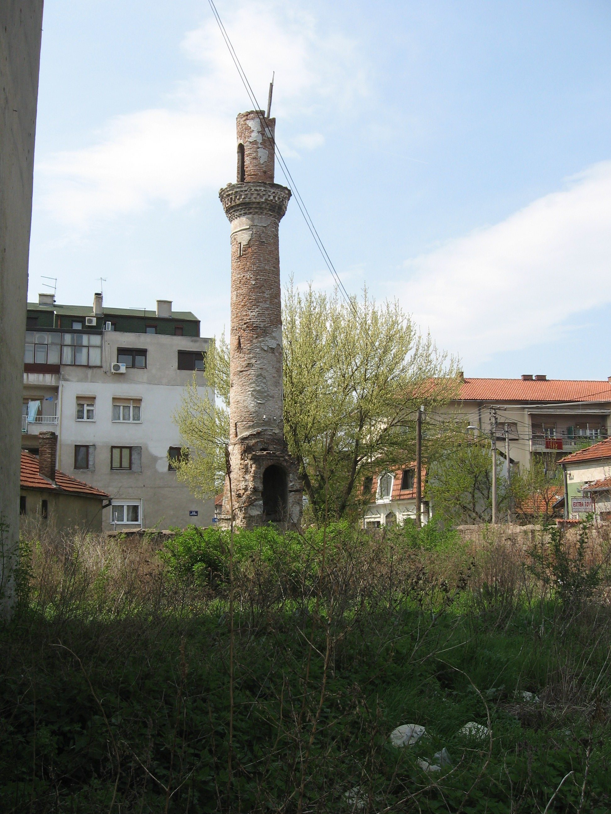 Hasan-beg's Mosque, Niš